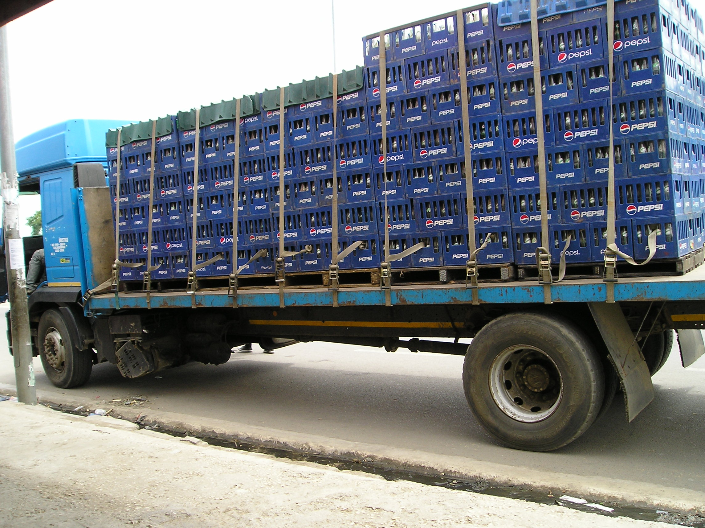 Big companies like Pep's drinks use these trucks to distribute their products within country in Zambia This is an image with the theme "Africa on the Move or Transport" from: Zambia